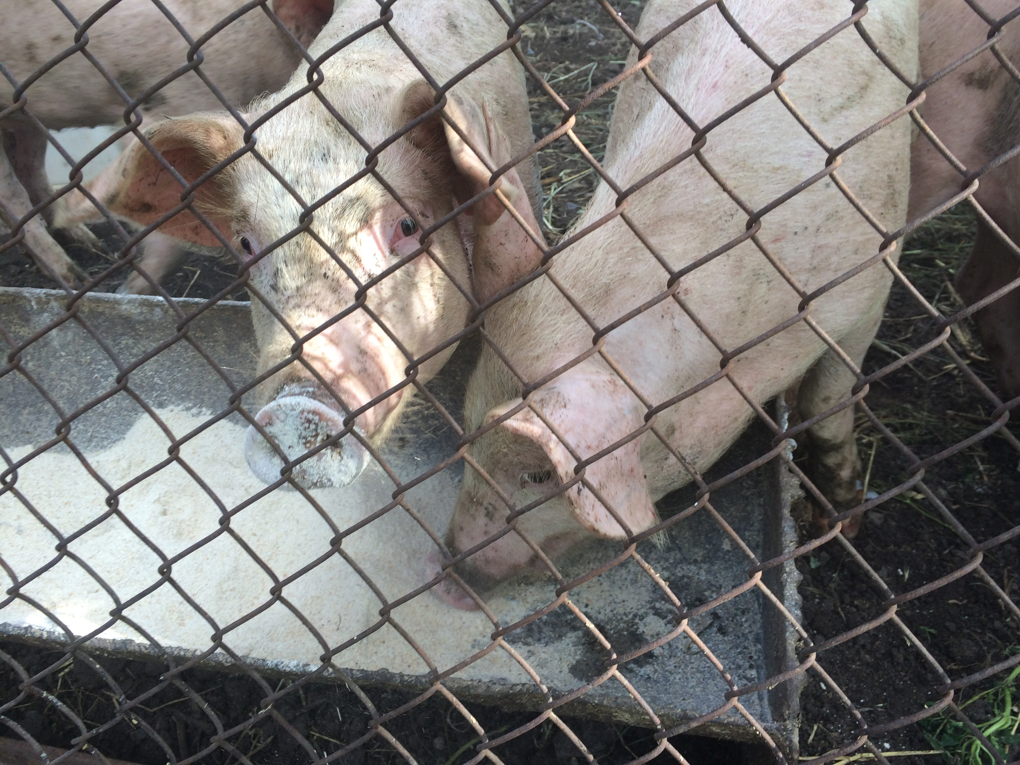 Pigs eating bran and whey.